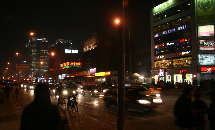 Wudaokou at night, Haidian district, Beijing, China